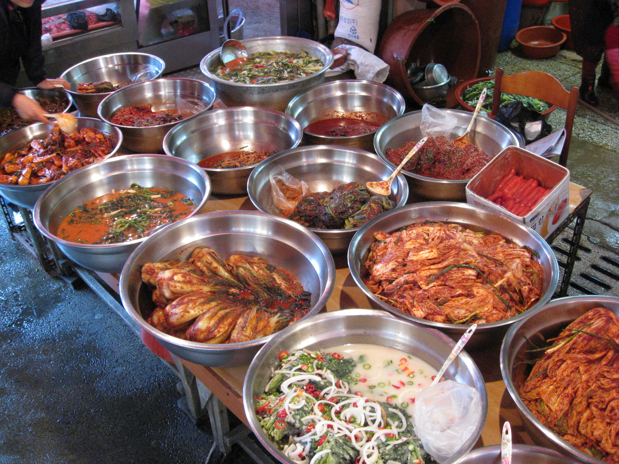 Another kimchi vendor.